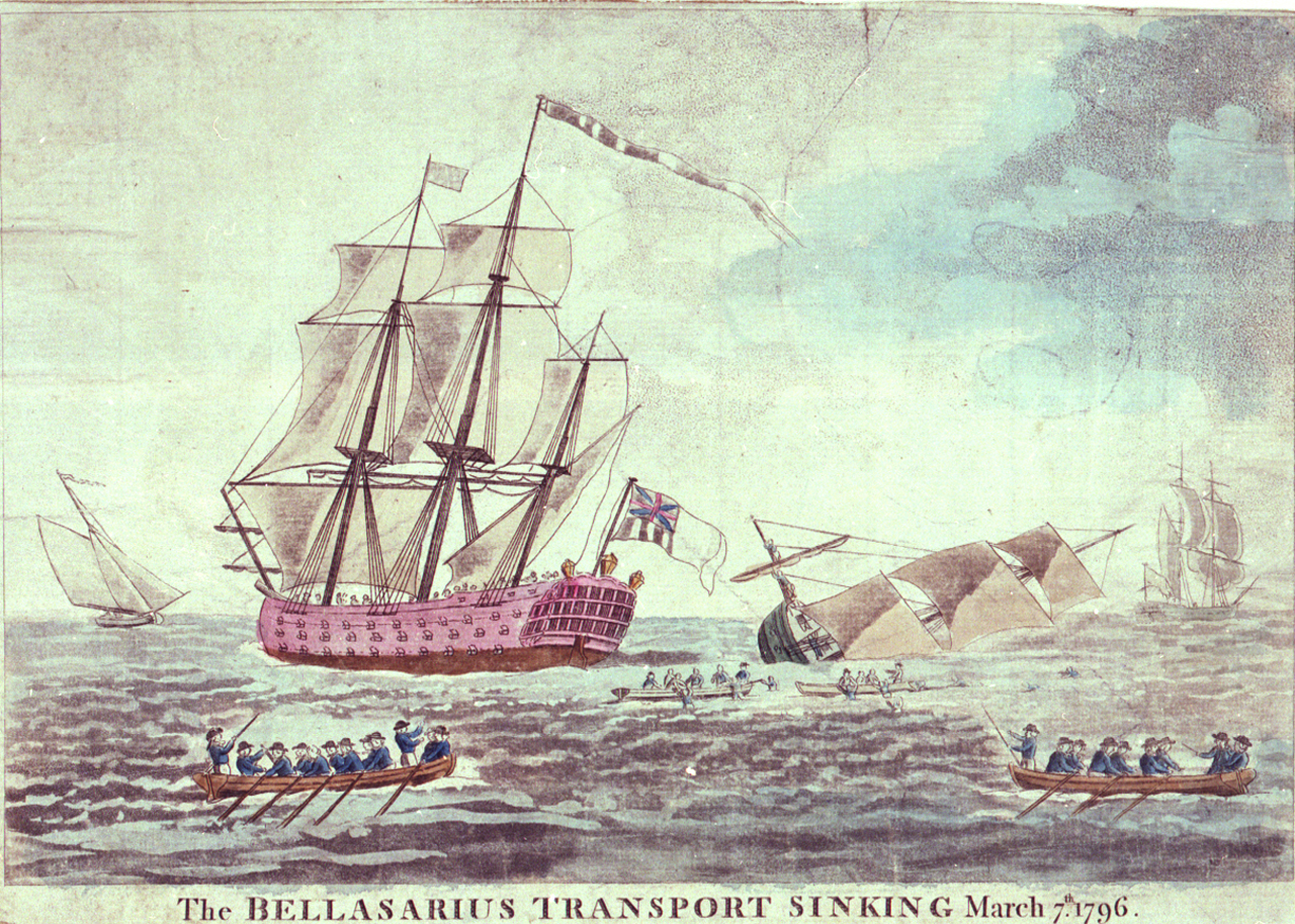 The Bellasarius Transport Sinking March 7th 1796 The Bellisarius Transport Sinking March 7th 1796, from a collision with HMS Royal Sovereign[1] Hand-coloured.; Technique includes etching.